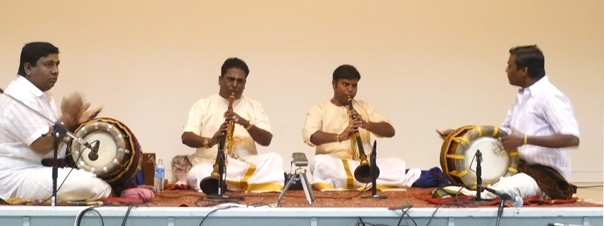 An ensemble made up of two nagaswaram players and two thavil players. Photo taken at the 31st annual Cleveland Thyagaraja Aradhana, at Cleveland State University in Cleveland, Ohio, United States. Photo taken with a Panasonic Lumix digital camera (model DMC-LS75). The musicians are from Chennai, Tamil Nadu, India, and their names are as follows: Mambalam Sri M. K. S. Siva, nagaswaram Sri K. Durga Prasad, nagaswaram Sri P. Arulanandan, thavil Sri V. M. Palanivel, thavil